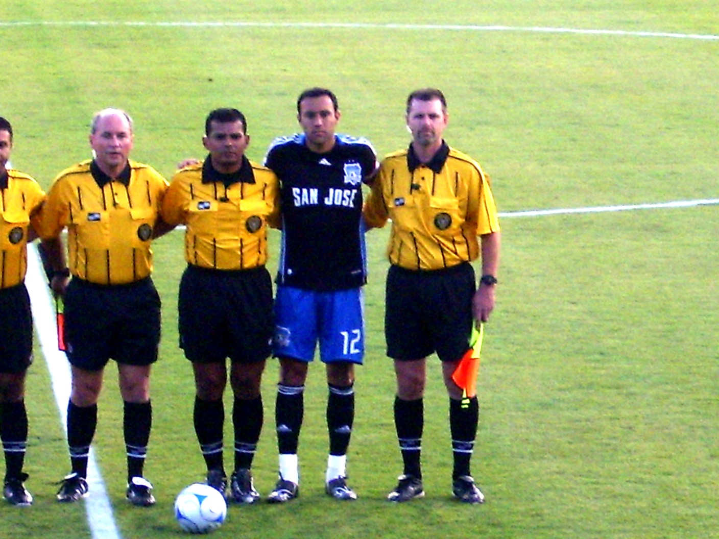 Picture of the San Jose Earthquakes' Vice-captain Ramiro Corrales, along with Referee Yader Reyes and assistant referees Joel Linn and Said Ravanfar, 4th official Phillipe Dor